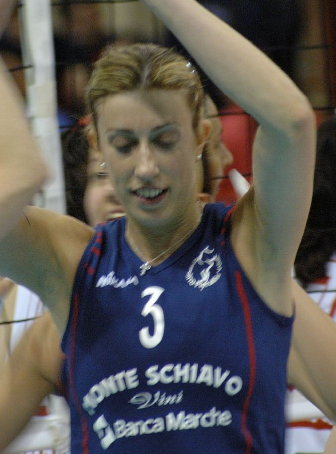 Italian volleyball player Elisa Togut